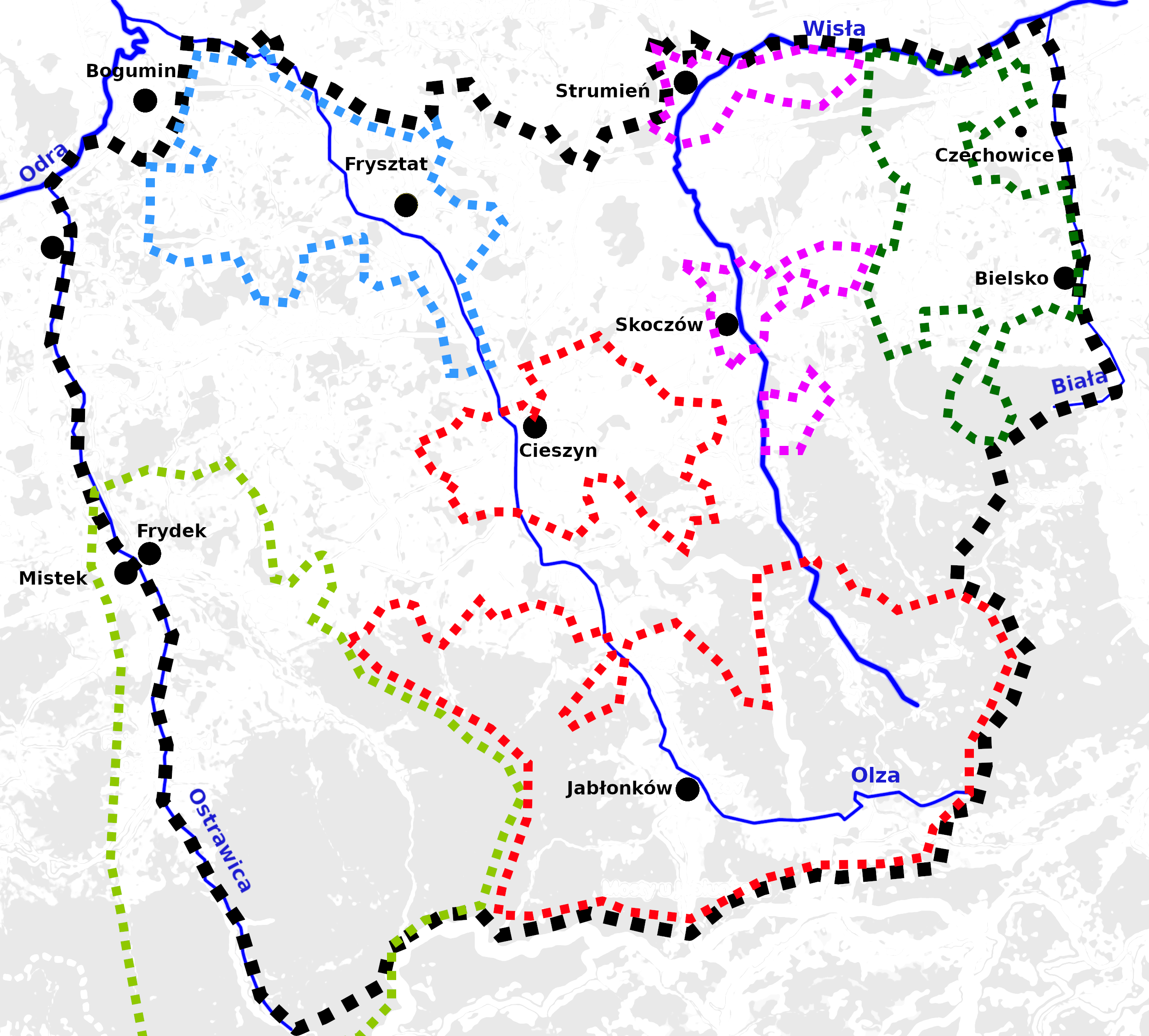 Duchy of Teschen - feudal fragmentation around the year 1580: black dotted line: borders in the early 16th century; red d.l.: land in direct ducal possession, future Teschen Chamber; dark green d.l.: Bielsko state country - future duchy of its own; light green d.l.: Frydek-Mistek state country - the most Catholic and Czech part of the Cieszyn Silesia; pink d.l.: Skoczów-Strumień state country - later reincorporated to the duchy/Teschen Chamber; blue d.l.: Frysztat state country - in future very fragmented; note: Bogumin was a state country of its own, but was not part of the Duchy of Teschen in the 16th century - the borders kind of differ with the textual description: for example in the text Brenna is part of Skoczów state country and Jasienica is part of the Bielsko state country, but not on the map; map based on the Monography of Cieszyn Silesia from 2011, Volume III (1528-1653), p. 112, ISBN: 978-83-926929-5-9